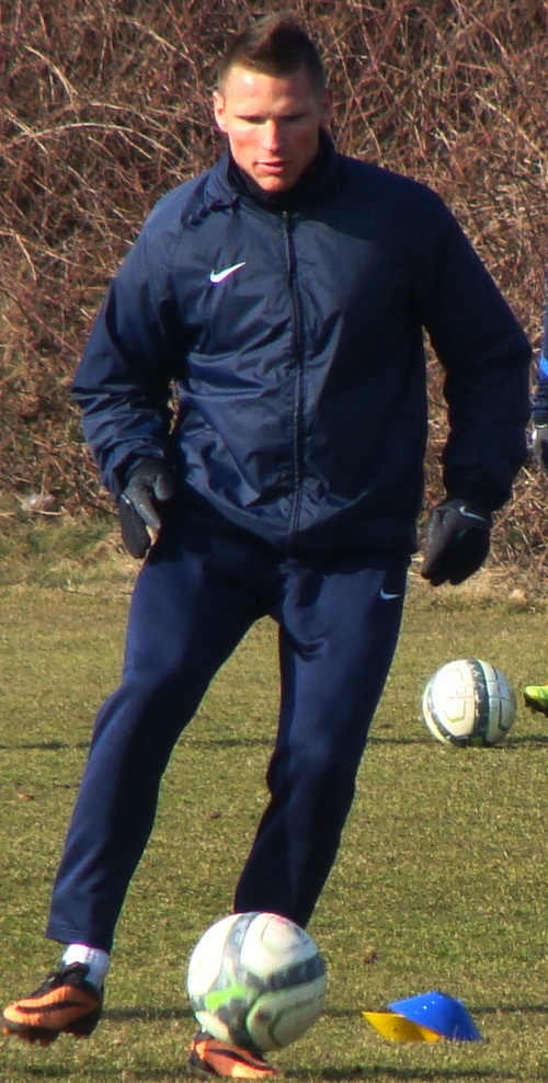 Marcin Robak training in Pogon Szczecin